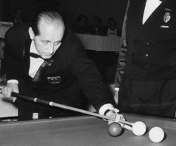 German carom billiards player